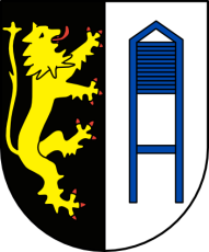 Coat of arms of the village of Wahlbach (Hunsrueck)